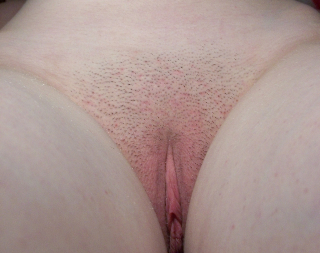 One vulva says more than a thousand words. Be courageous - post your poontang.